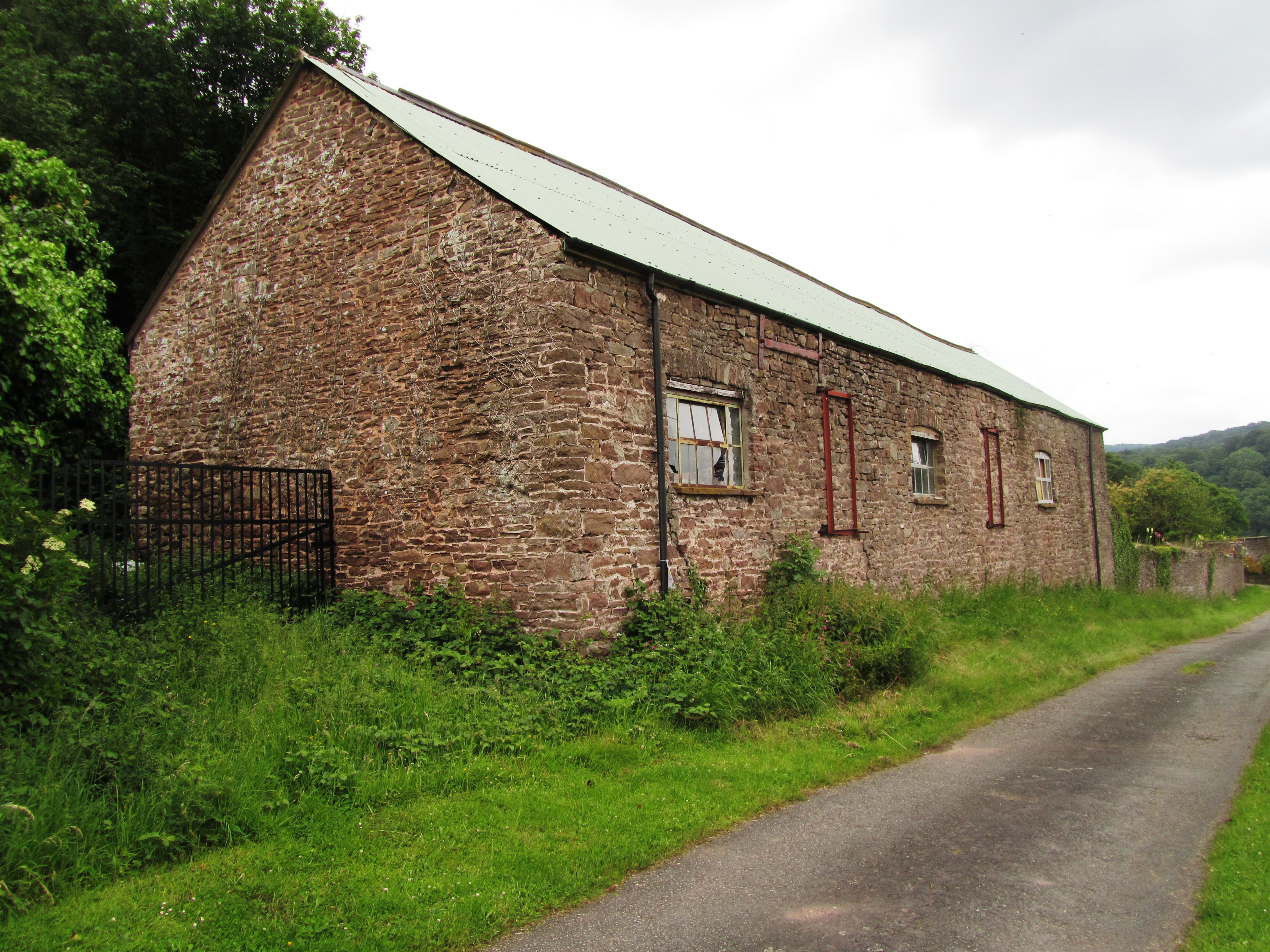 Newton Court Stable Block, near Monmouth in Wales